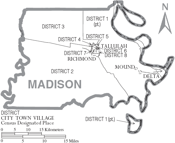 Map of Madison Parish, Louisiana, United States with district and municipal boundaries